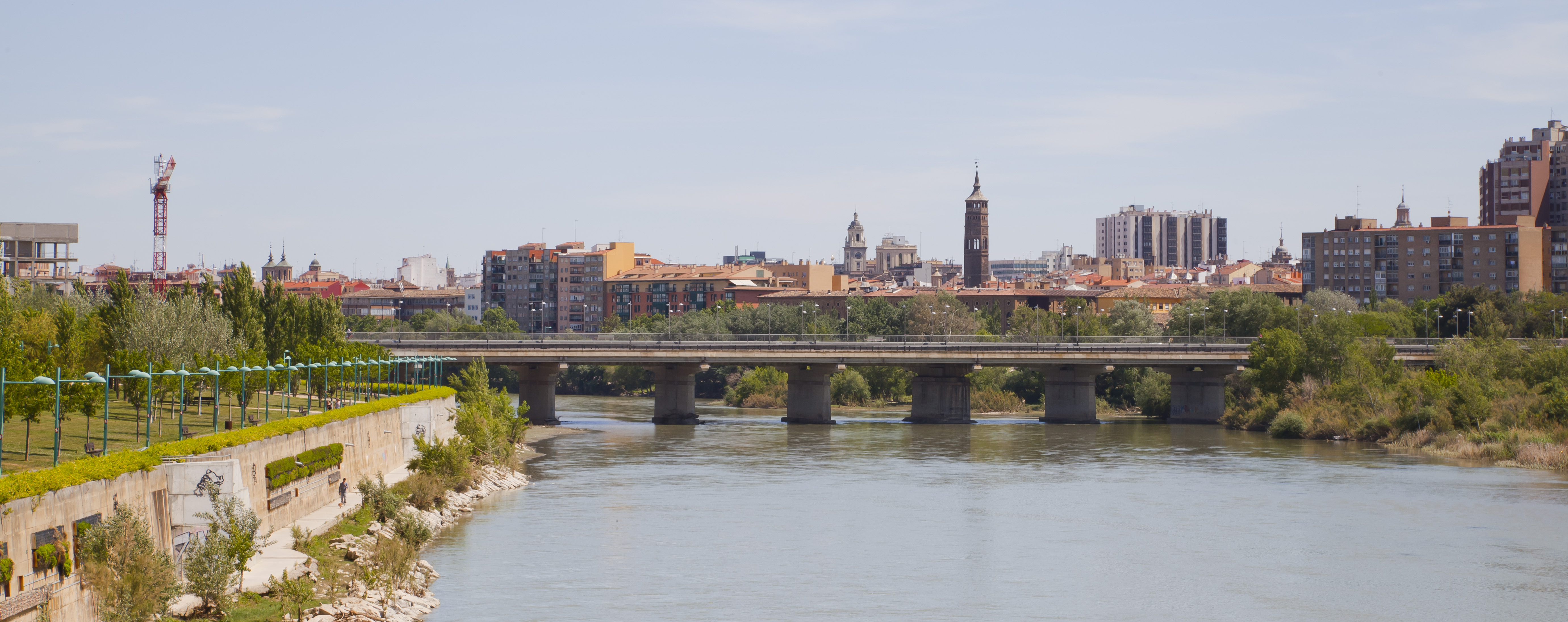 Bridge of Almozara, Saragossa, Spain